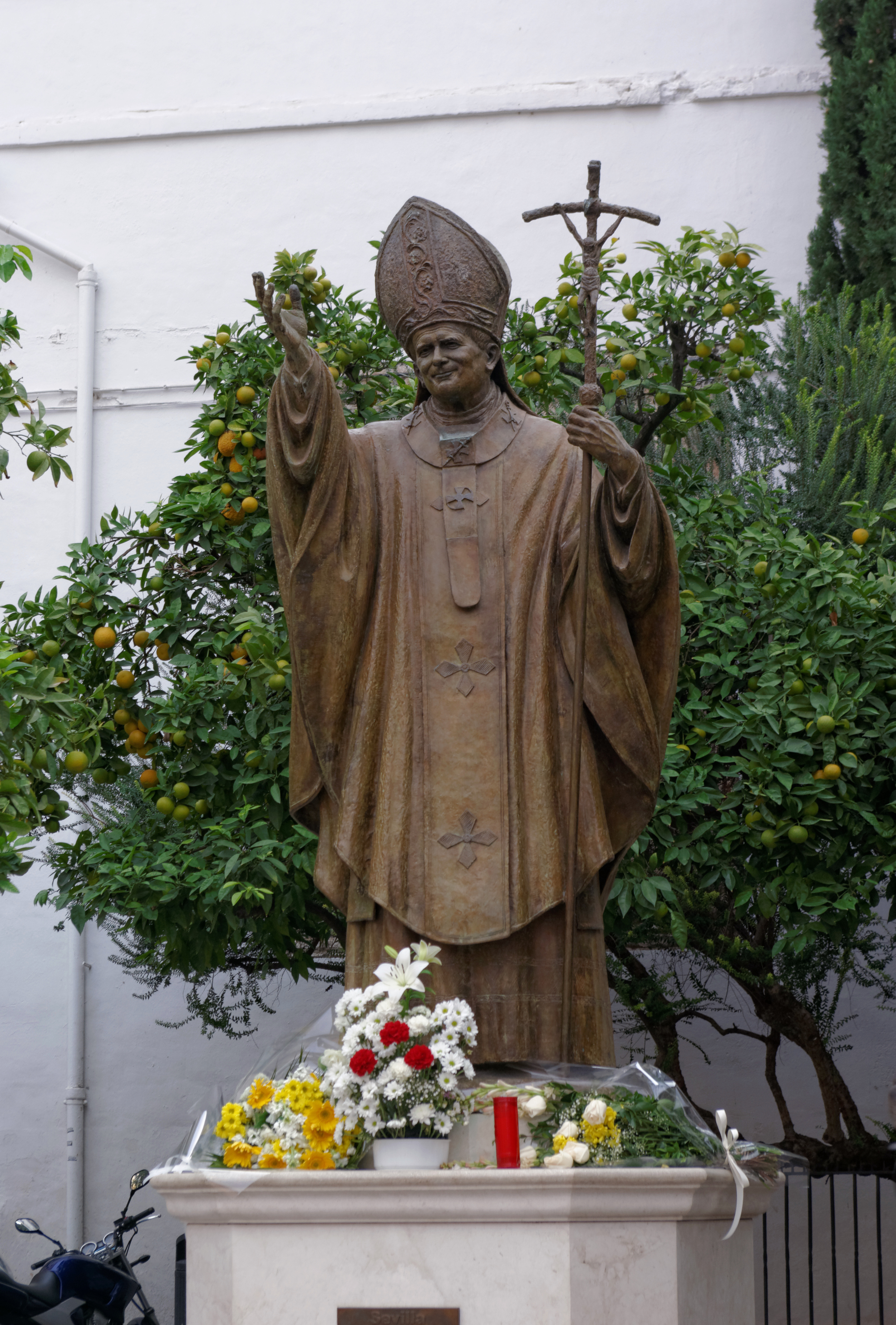 Spain, Sevilla, Monument for John Paul II